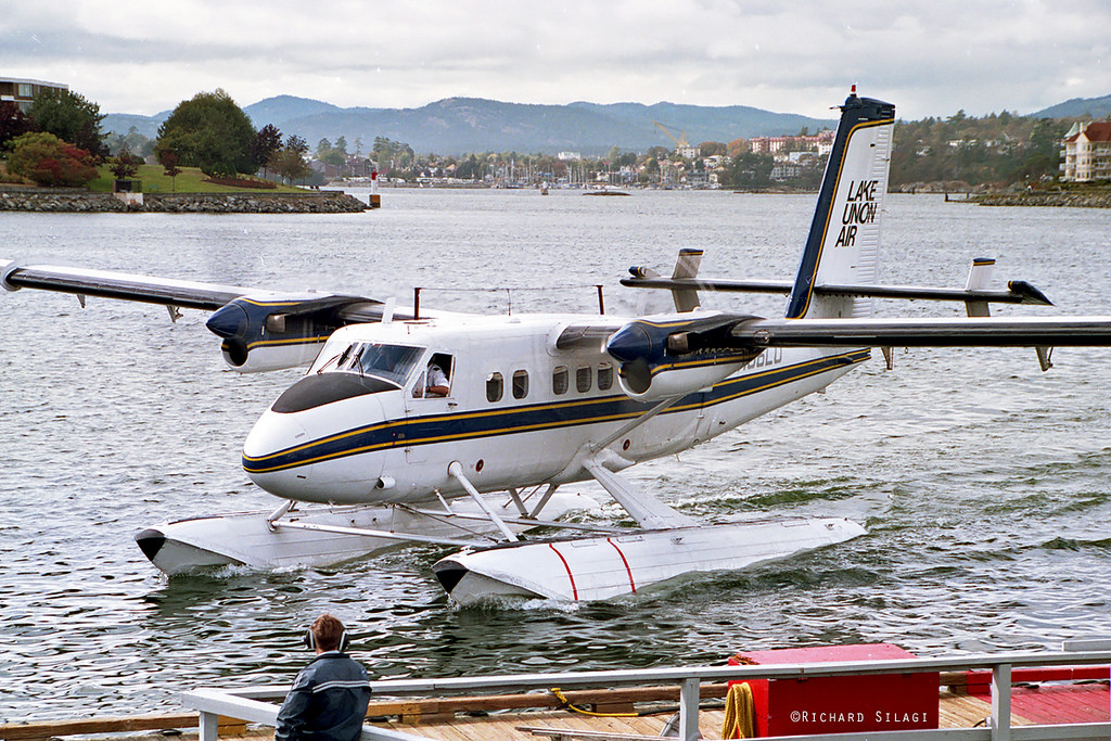 Lake Union Air DeHavilland DHC-6 Twin Otter N86LU in Victoria Harbor (British Columbia) in September 1991